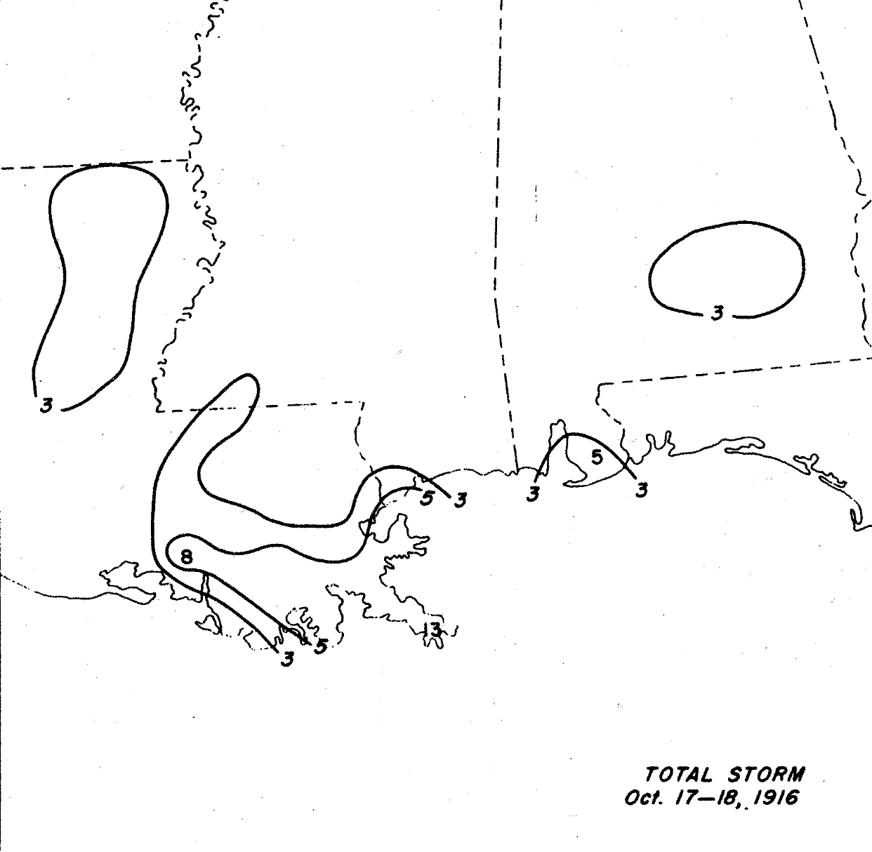 Map of rainfall associated with the Hurricane Fourteen of the 1916 Atlantic hurricane season in the United States.